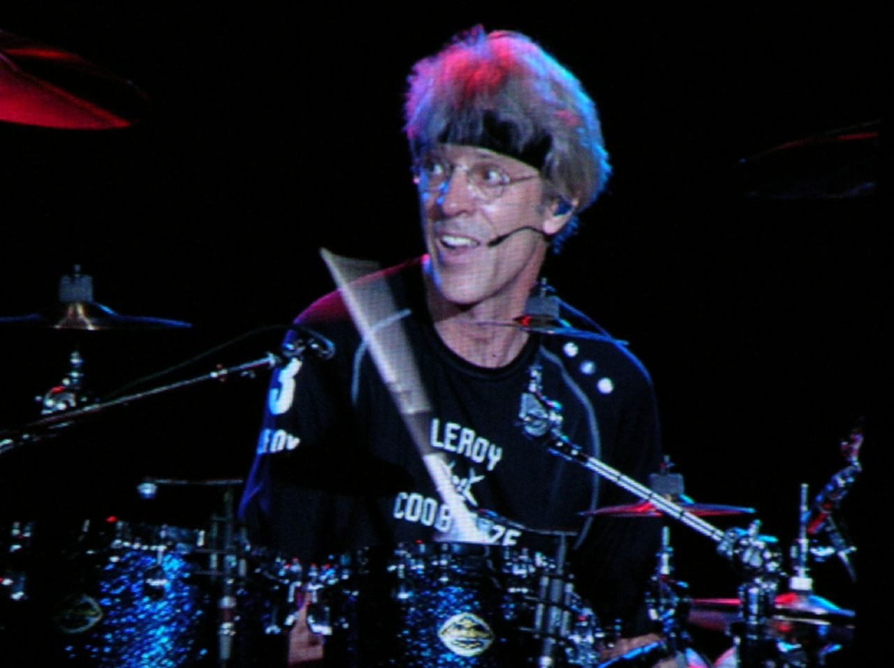 Stewart Copeland, The Police on tour 2007 Boston